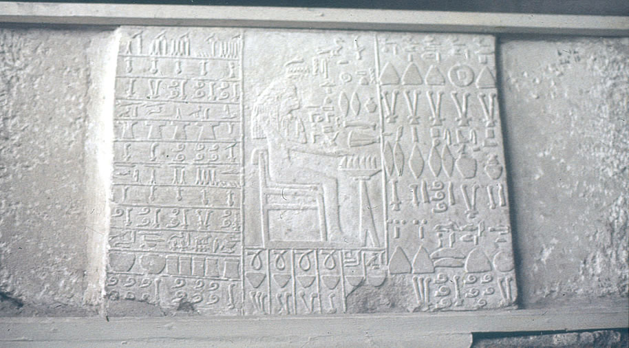 Egyptian stela found at Saqqara, Second Dynasty, now in the Egyptian Museum in Cairo